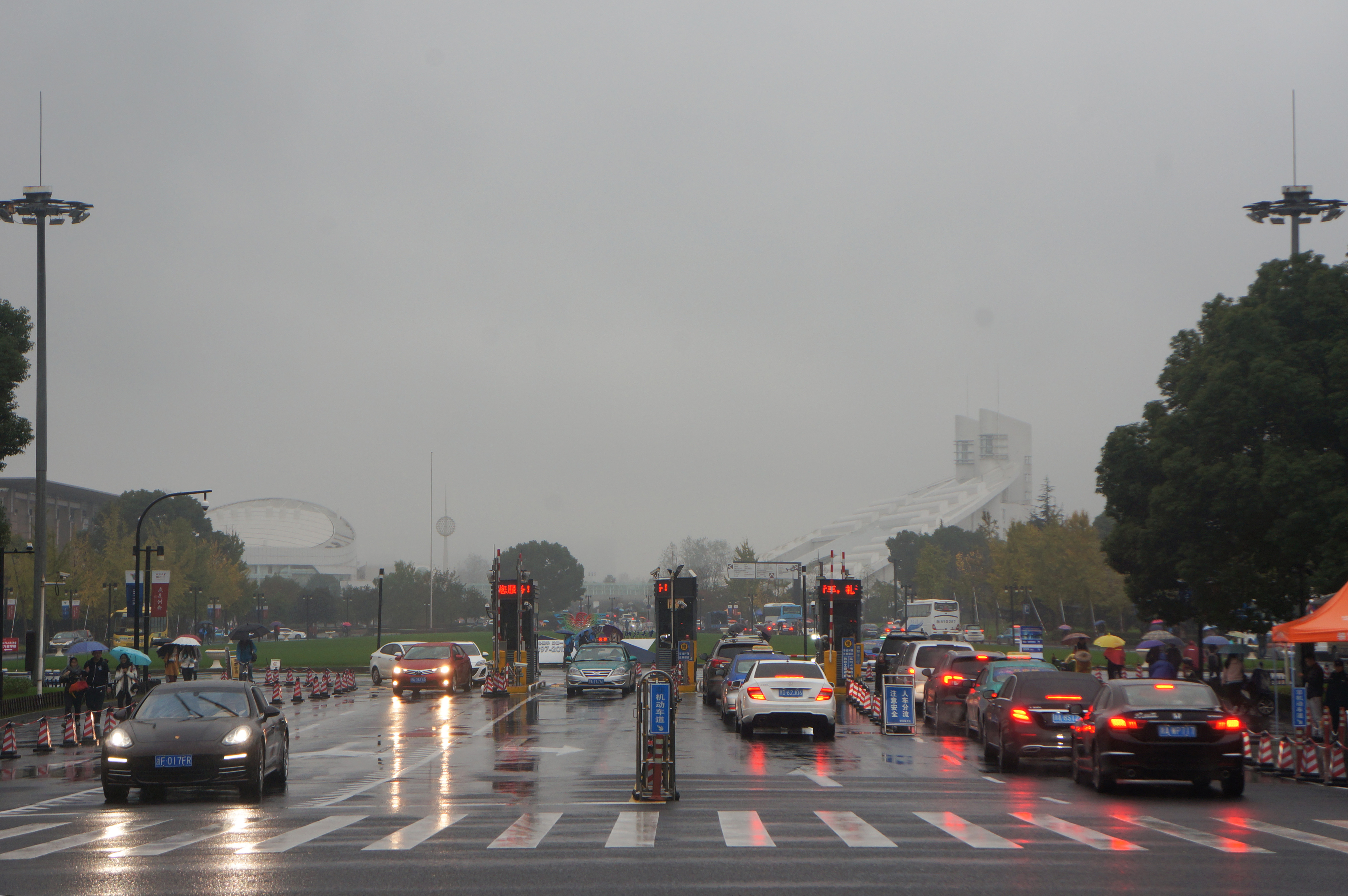 201611 Eastern Gate of ZJU Zijingang Campus (Eastern gate of PKU?)